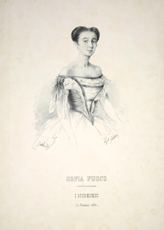 Sofia Fuoco, i Modenesi, la primavera